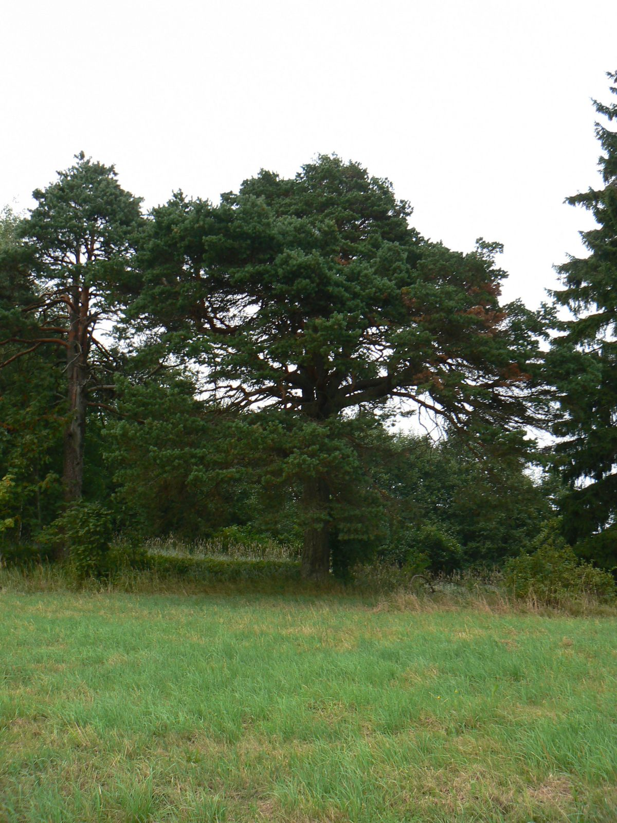 Hinsa pine in Estonia